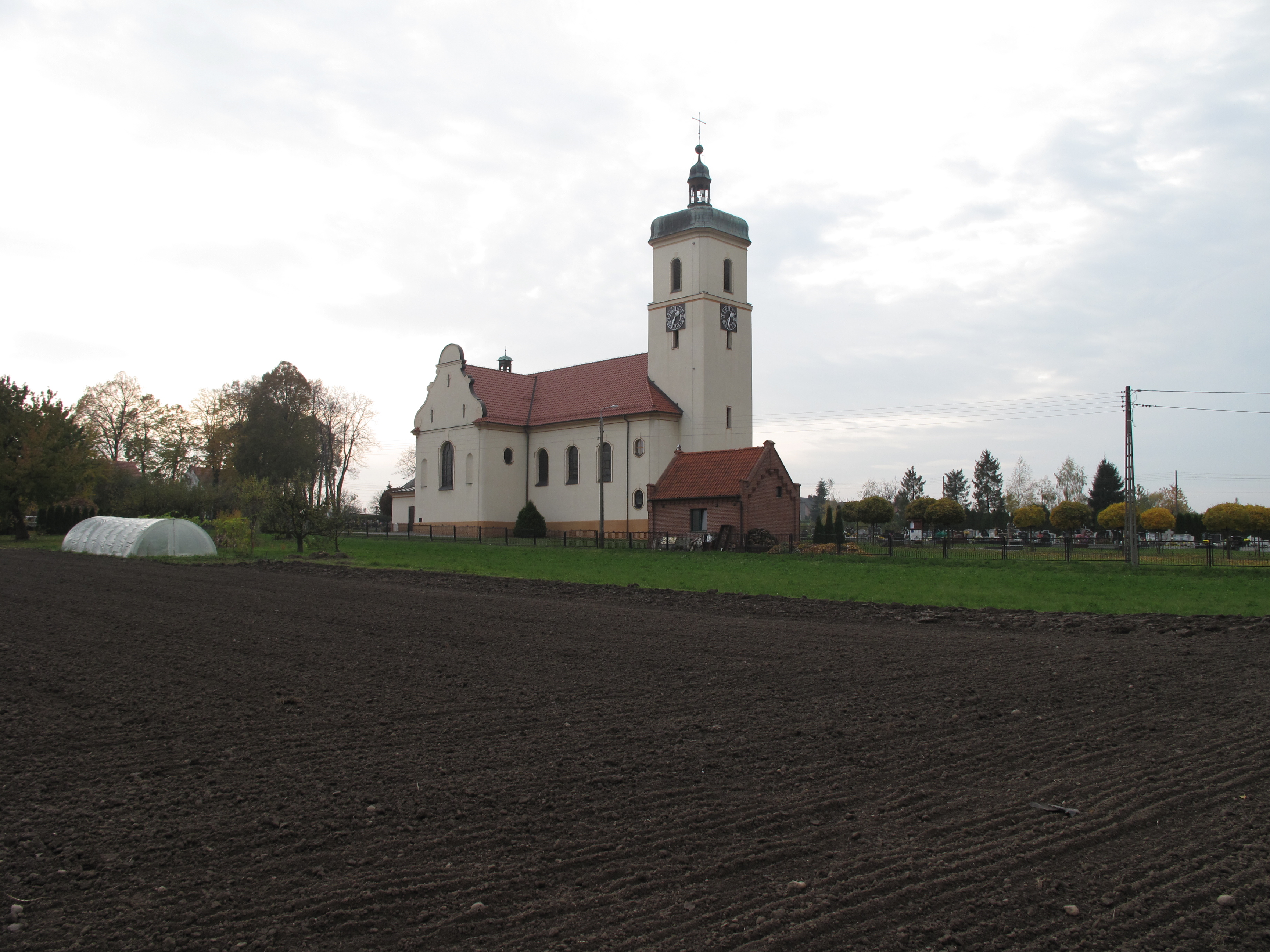 Samborowice (województwo śląskie). Racibórz County, Poland.